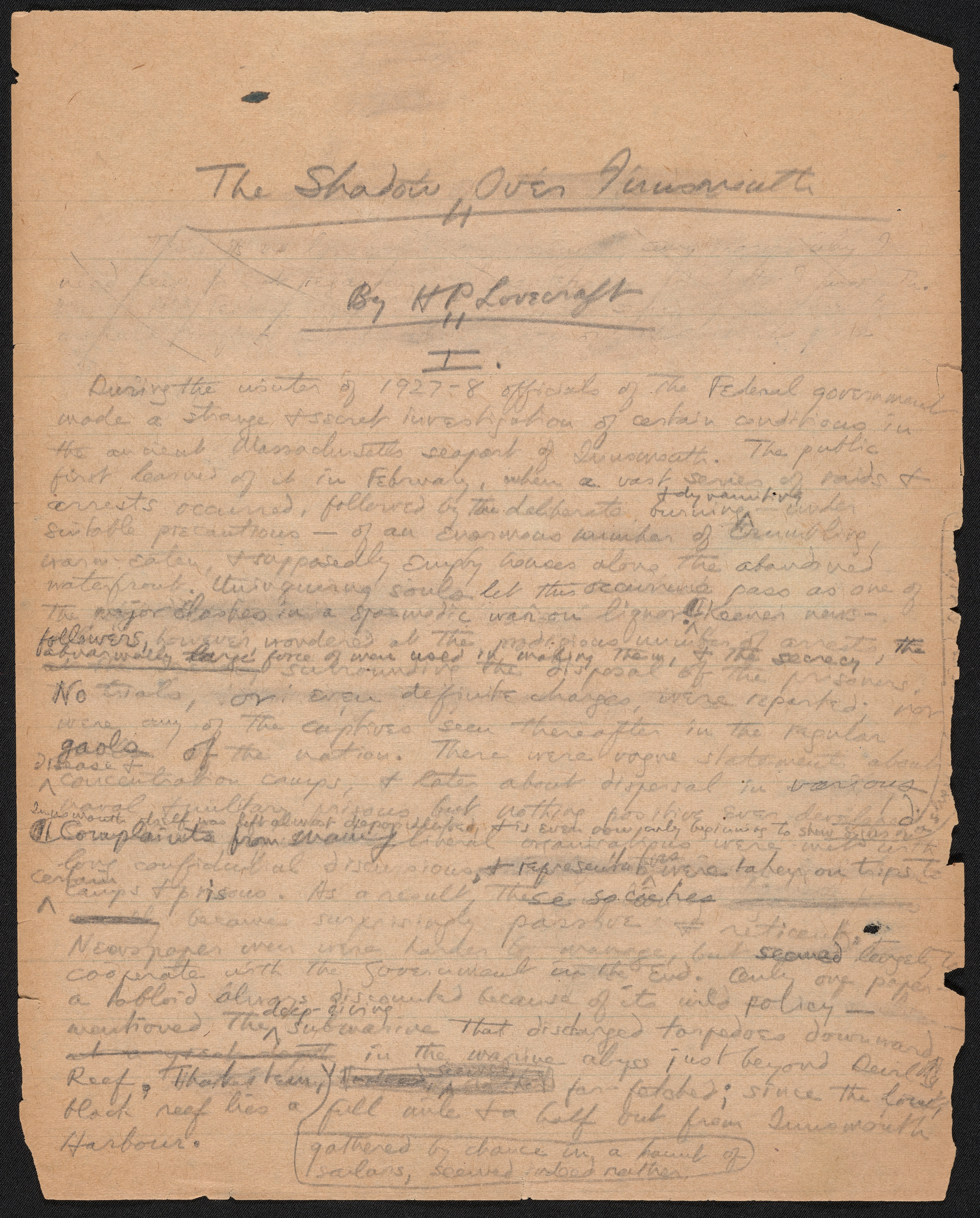 First page of the manuscript The Shadow Over Innsmouth.